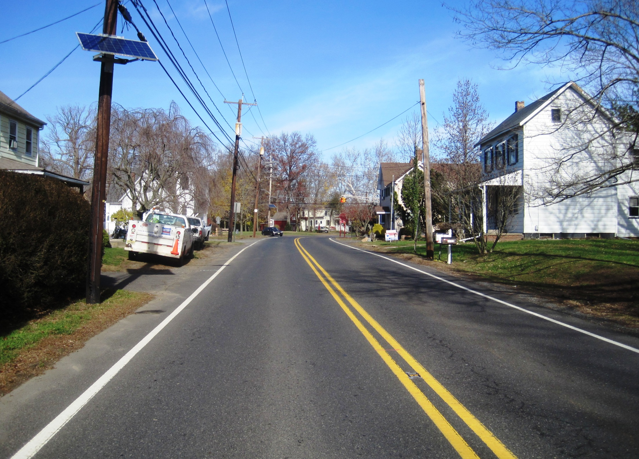 Photo of Hedding, New Jersey, an unincorporated community within Mansfield Township. Photo taken looking north along Old York Road (County Route 660) towards Kinkora Road (CR 678).